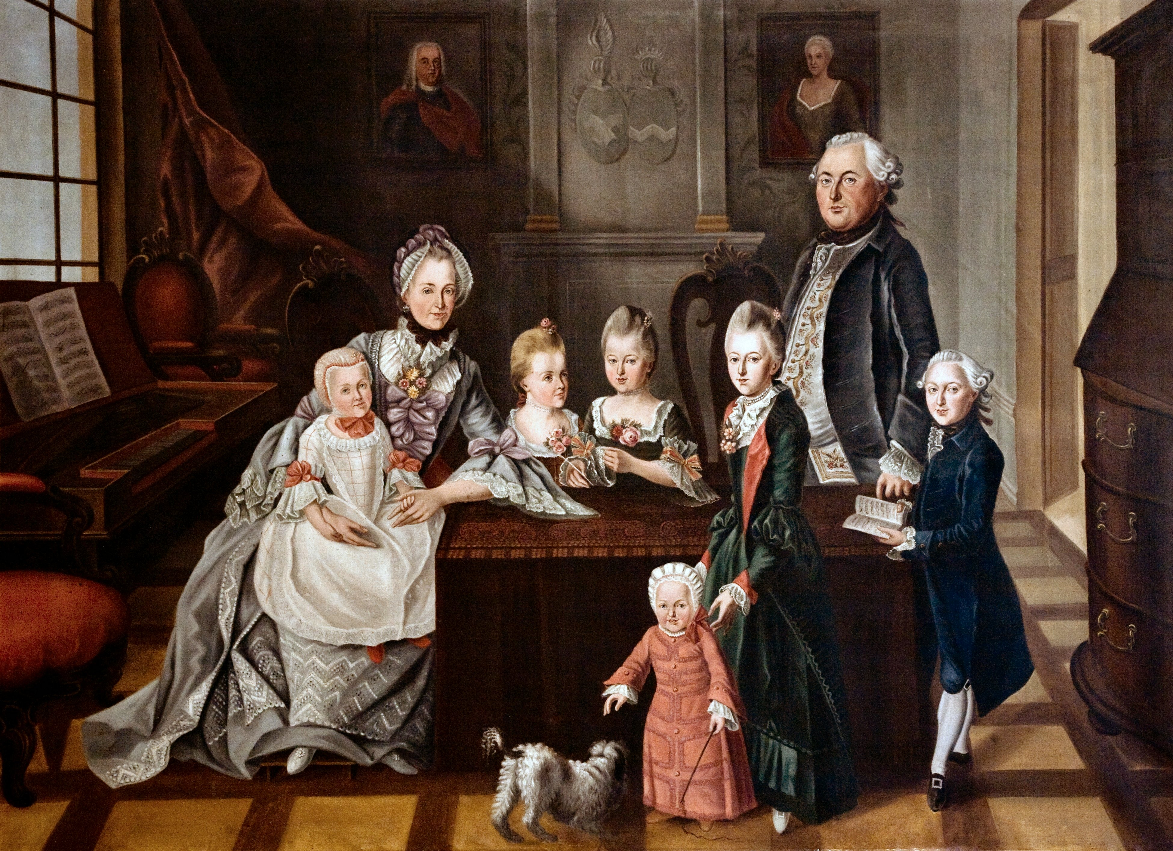 Painting of the noble family Graf von Pfeil und Klein-Ellguth, dated 1772. The oil painting features Karl Friedrich II Graf von Pfeil und Klein-Ellguth, * 1735 † 1807, in his castle Groß-Wilkau (today Wilków Wielki), with his spouse Anna Eleonore Charlotte Friederike, née von Posadowsky Freiin von Postelwitz, *1735 † 1813, and their children.